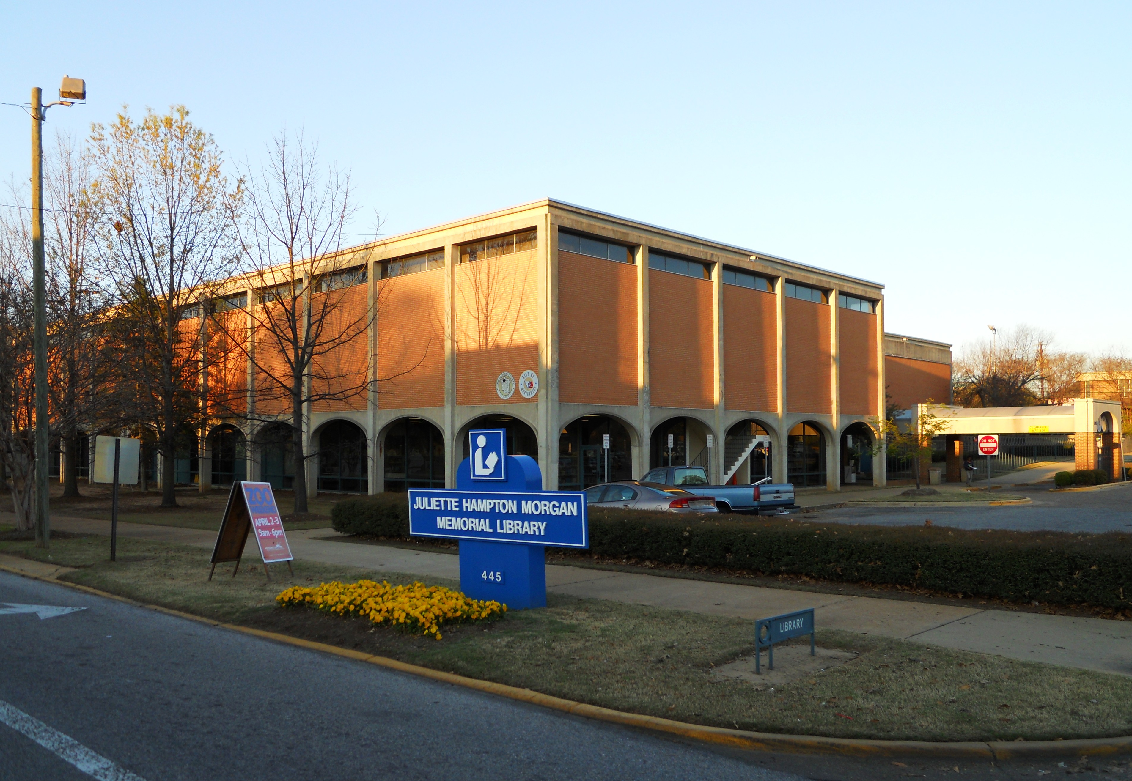 This is a photograph of the Juliette Hampton Morgan Memorial Library in Montgomery, Alabama.